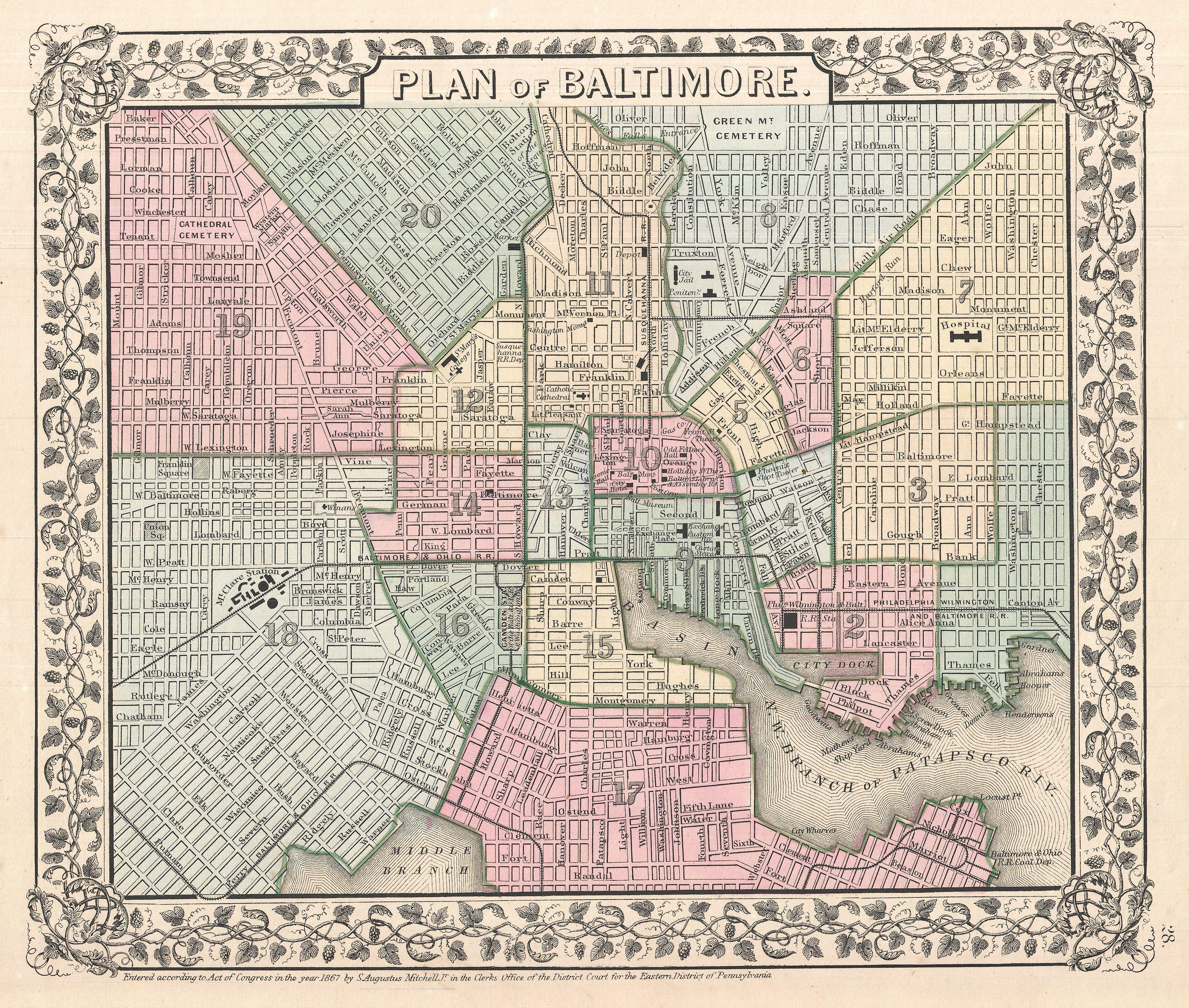 A beautiful example of S. A. Mitchell Jr.’s 1867 map of Baltimore, Maryland. Covers Baltimore from the Northwest Brach of the Patapsco River and Locust Point northwards as far as Green Mountain Cemetary and Oliver Street. Hand colored in pink, green, yellow and blue pastels to identify city wards. In general this map offers extraordinary detail at level of individual streets and buildings. Identifies the city Hospital, Railroad Depot, Mt. Clare Station, St. Mary's College, and the City Jail, among many other sites. Surrounded by the attractive vine motif border common to Mitchell atlases between 1866 and 1880. One of the more attractive atlas maps of Baltimore to appear in the latter half of the 19th century. Prepared by S. A. Mitchell Jr. for inclusion as plate no. 28 in the 1867 issue of Mitchell’s New General Atlas . Dated and copyrighted, “Entered according to Act of Congress in the Year 1867 by S. Augustus Mitchell Jr. in the Clerks Office of the District Court for the Eastern District of Pennsylvania.